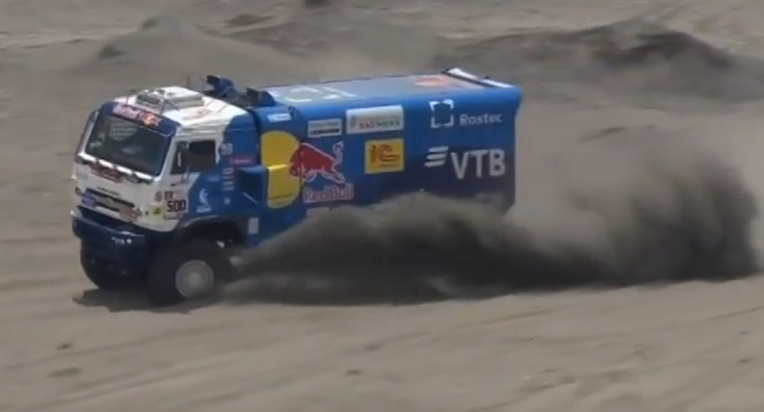 Dakar 2018. Stage 4. San Juan de Marcona. Eduard Nikolaev - Kamaz